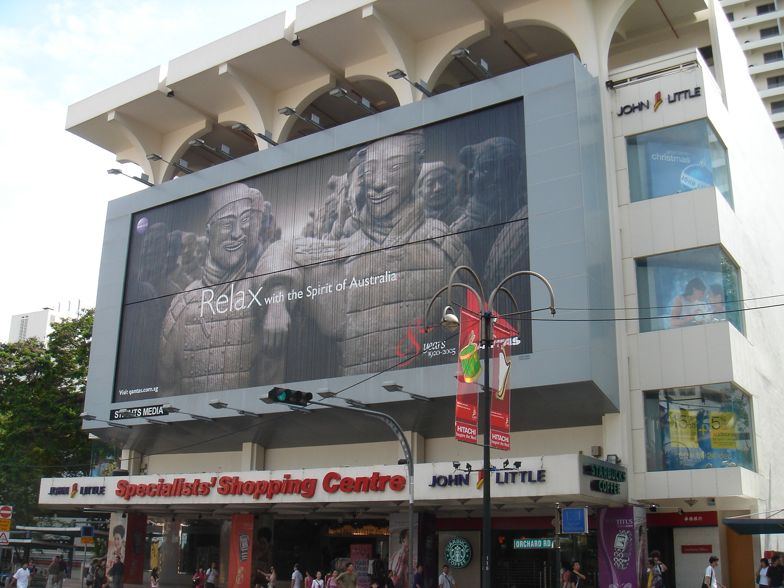 Specialists' Shopping Centre, taken as of 2005, Orchard Road, Singapore. The building has since been demolished for redevelopment.